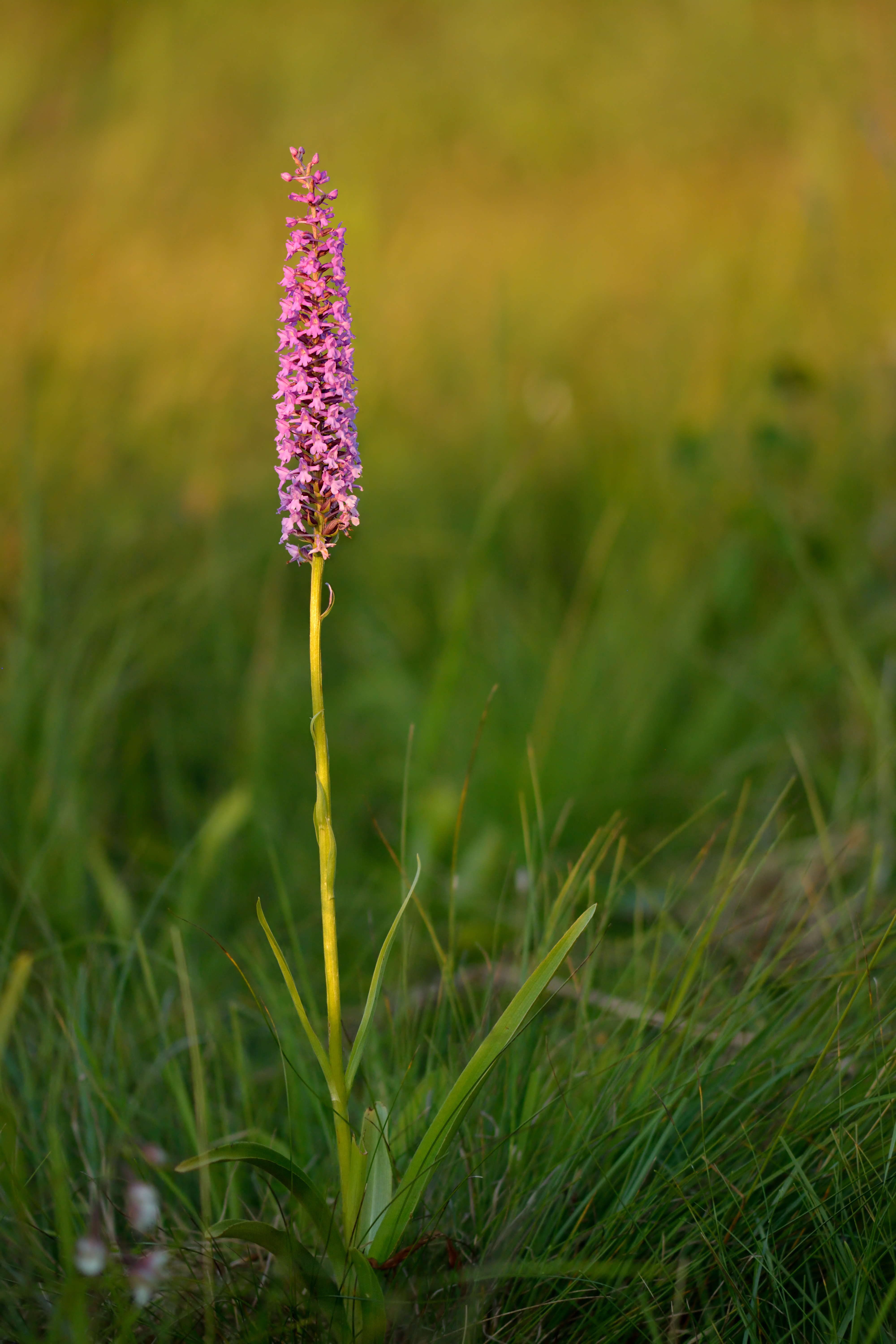 Marsh fragrant-orchid